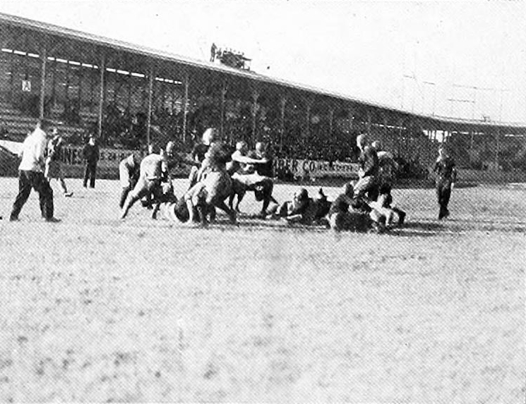 The Rice Owls football team play football against an unknown opponent (it is most likely LSU, Notre Dame or Texas A&M) in 1915 at West End Park in Houston.